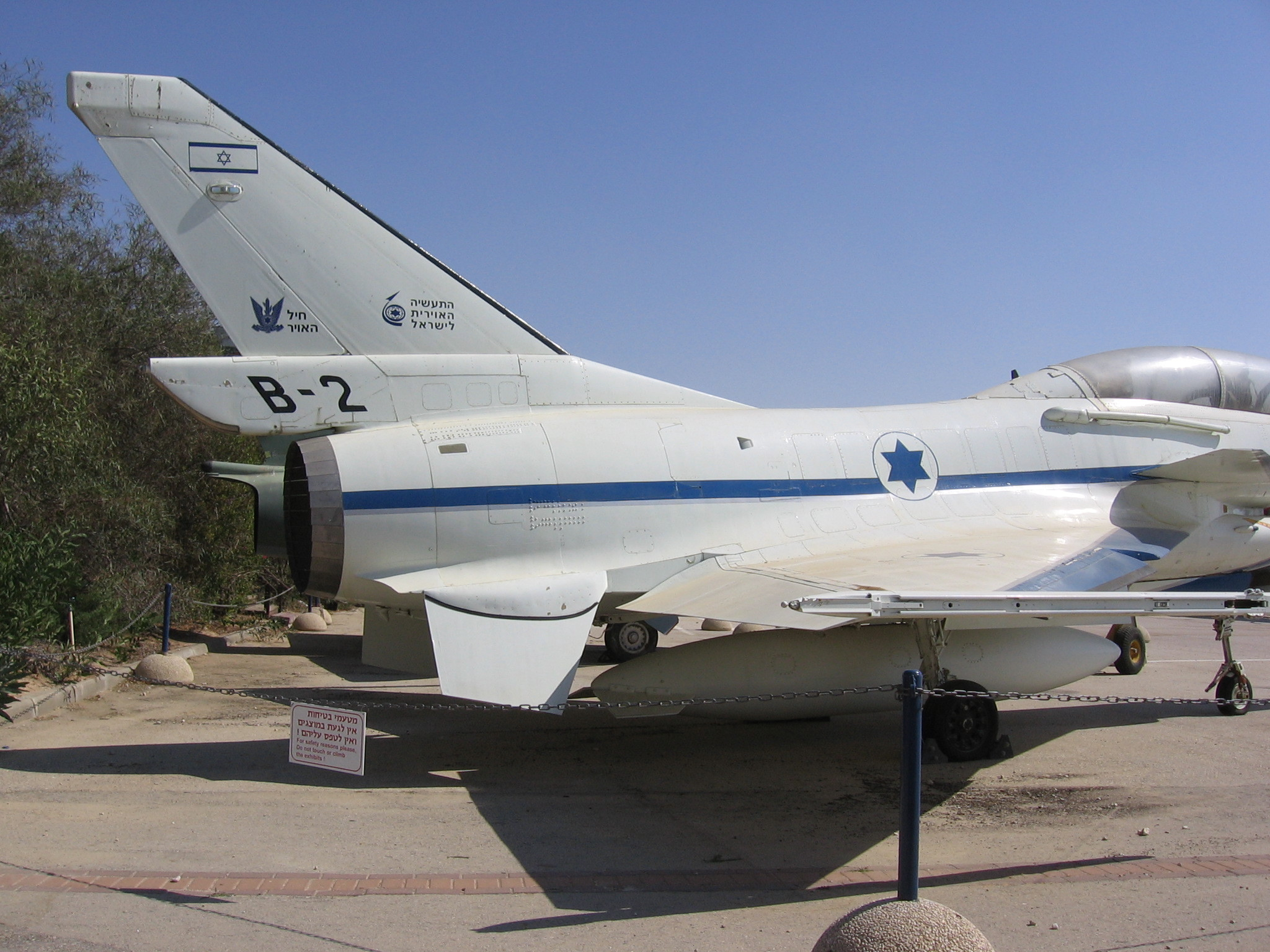 The tail of the IAI Lavi on display in Be-er Sheva.